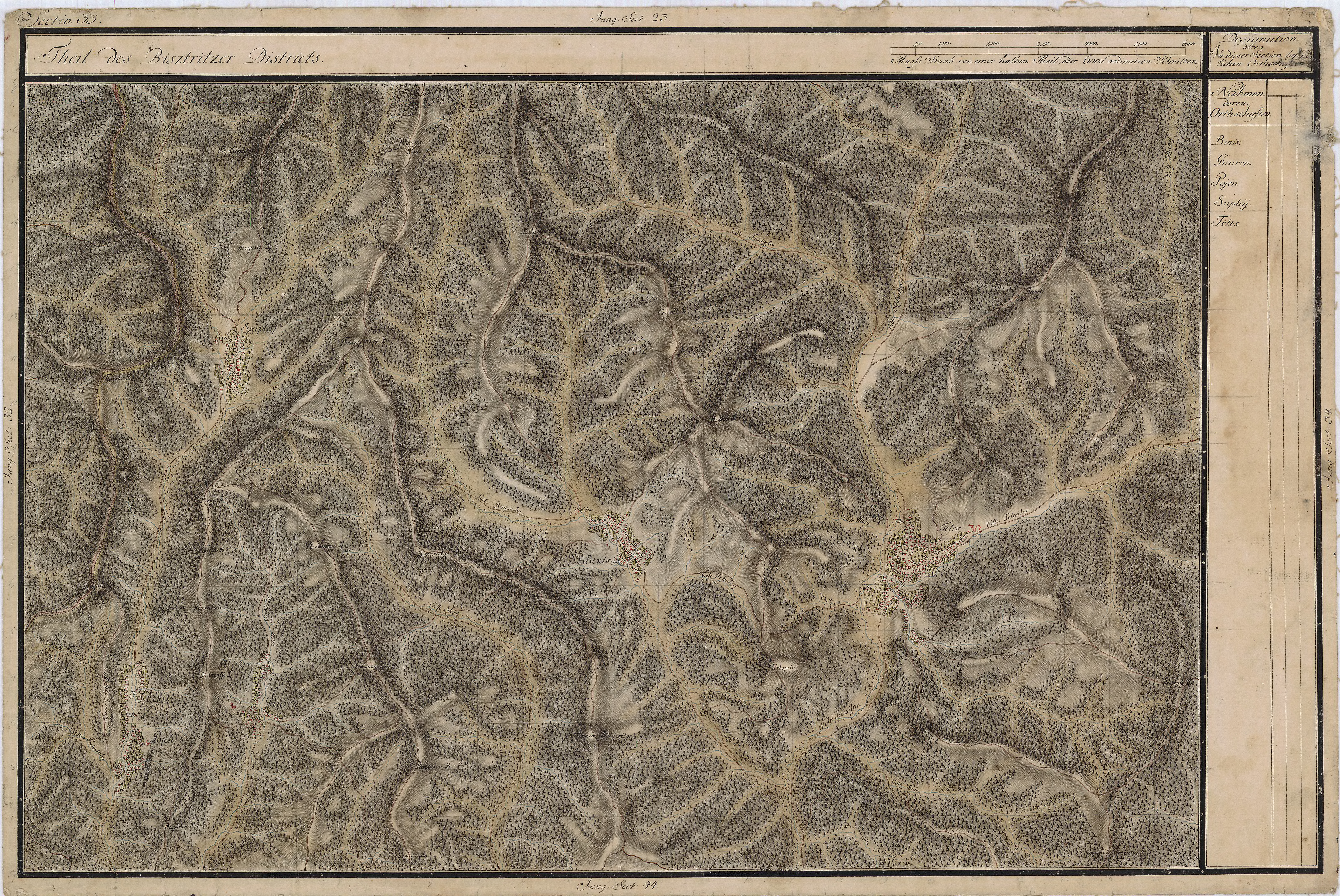 Grand Duchy of Transylvania, 1769-1773. Josephinische Landaufnahme pg.033